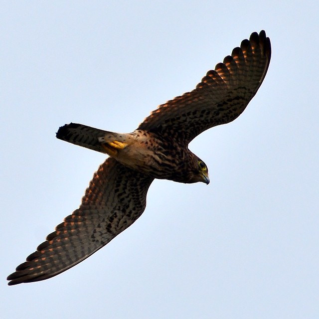 Spotted kestrel #birds #birding #bandungbirding #igbirds #extrembirds #natgeo #wildlife #nature #udog_feathers